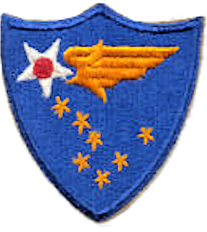 Patch of the Alaskan Air Command - USAAF - 1946